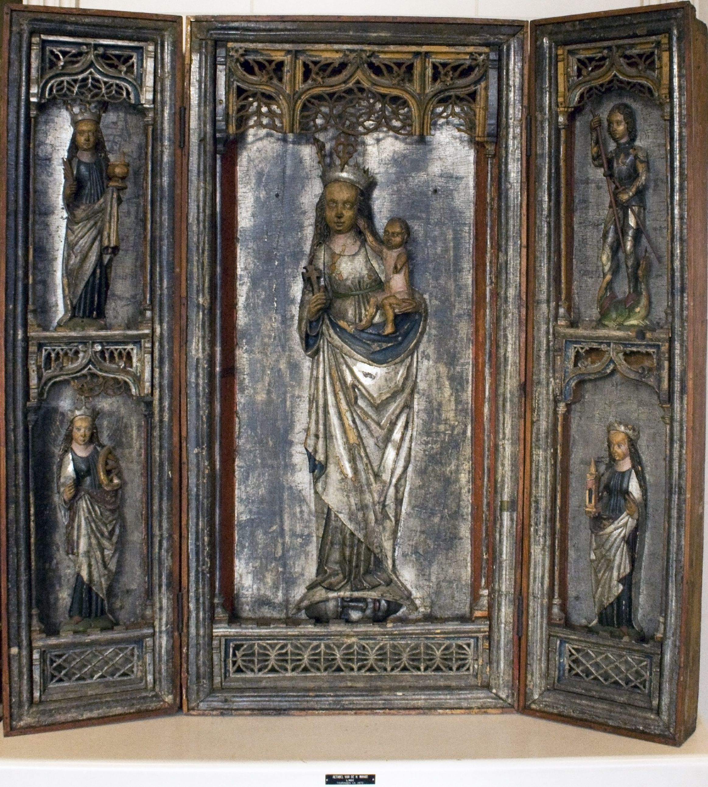 Triptych of the Virgin Mary with Elisabeth of Hungary in Kortrijk, made by unknown author in Thuringia, c. 1470